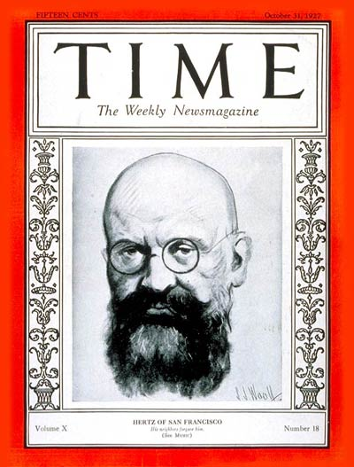 The image of German conductor Alfred Hertz (1872-1942) on the cover of Time magazine